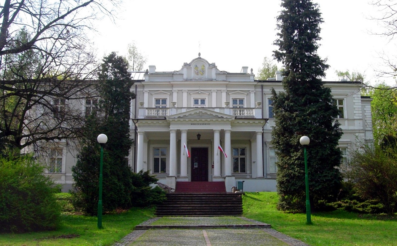 Museum in Ostrowiec Świętokrzyski